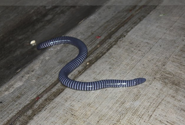 Anfibio, cecilia